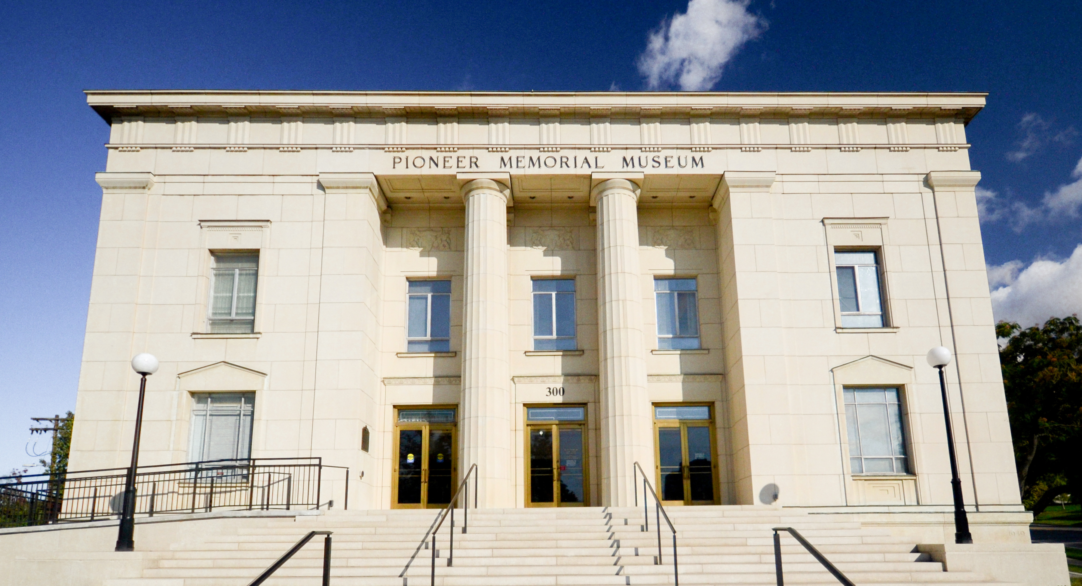 Pioneer Memorial Museum, at 300 N. Main St., Salt Lake City, Utah, United States, is the headquarters of International Society Daughters of Utah Pioneers.